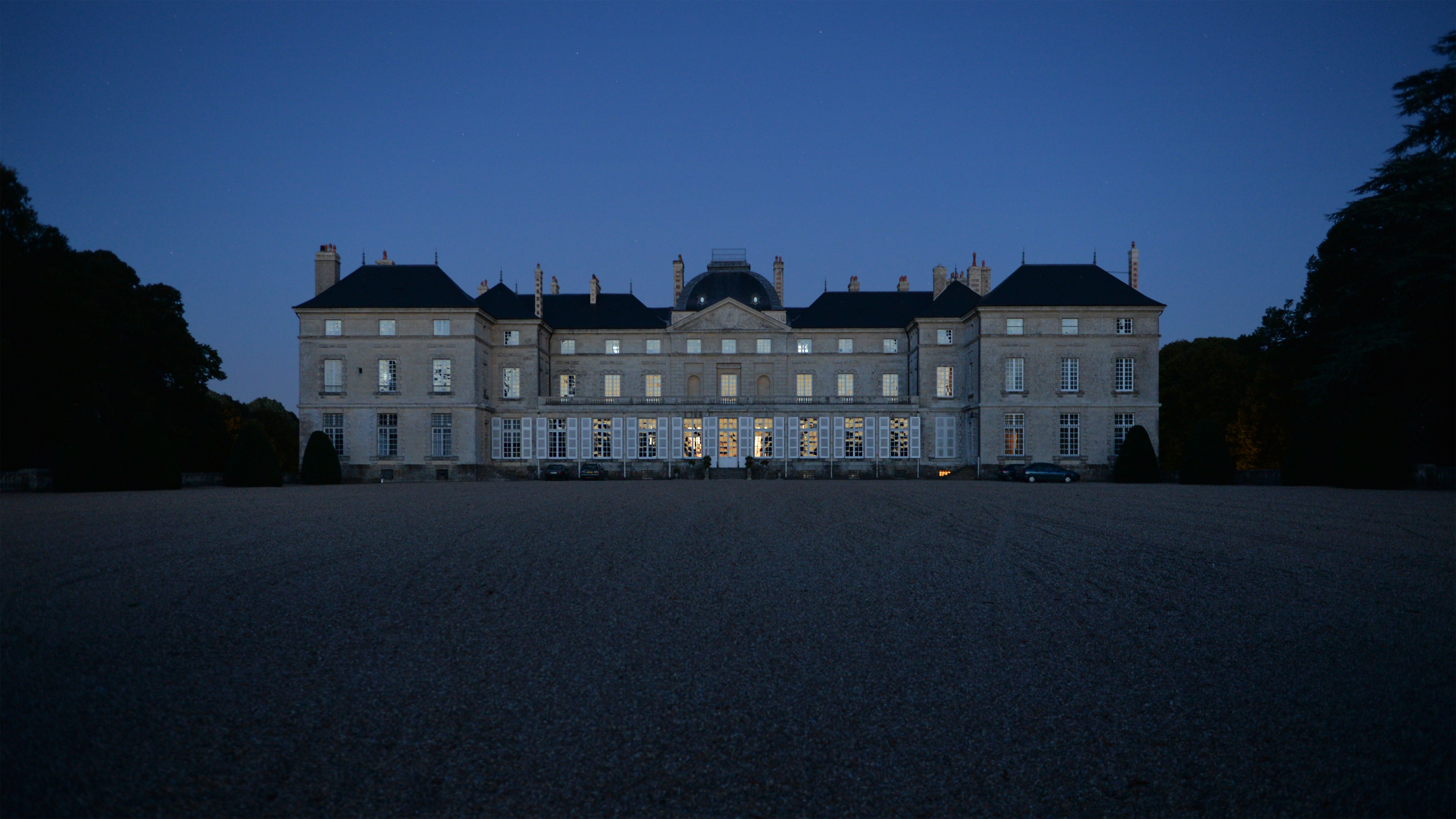 Castle of Sourches by night, Saint-Symphorien, Sarthe, France, 2015.